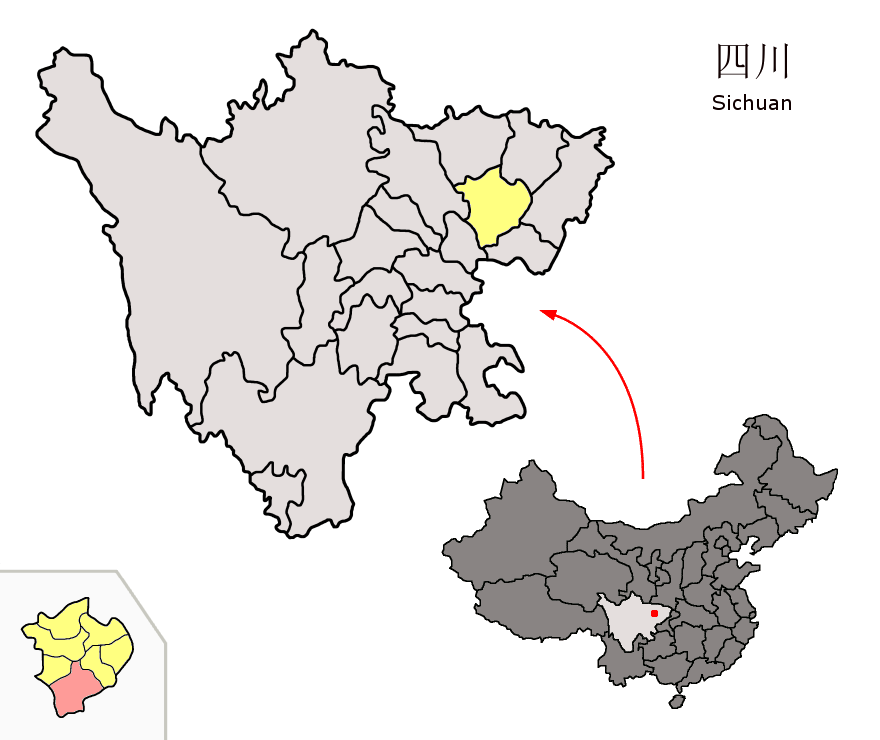 Location of Nanchong City Districts (pink) and Nanchong Prefecture (yellow) within Sichuan province of China Map drawn in october 2007 using various sources, mainly : Sichuan province administrative regions GIS data: 1:1M, County level, 1990 Sichuan Counties map from